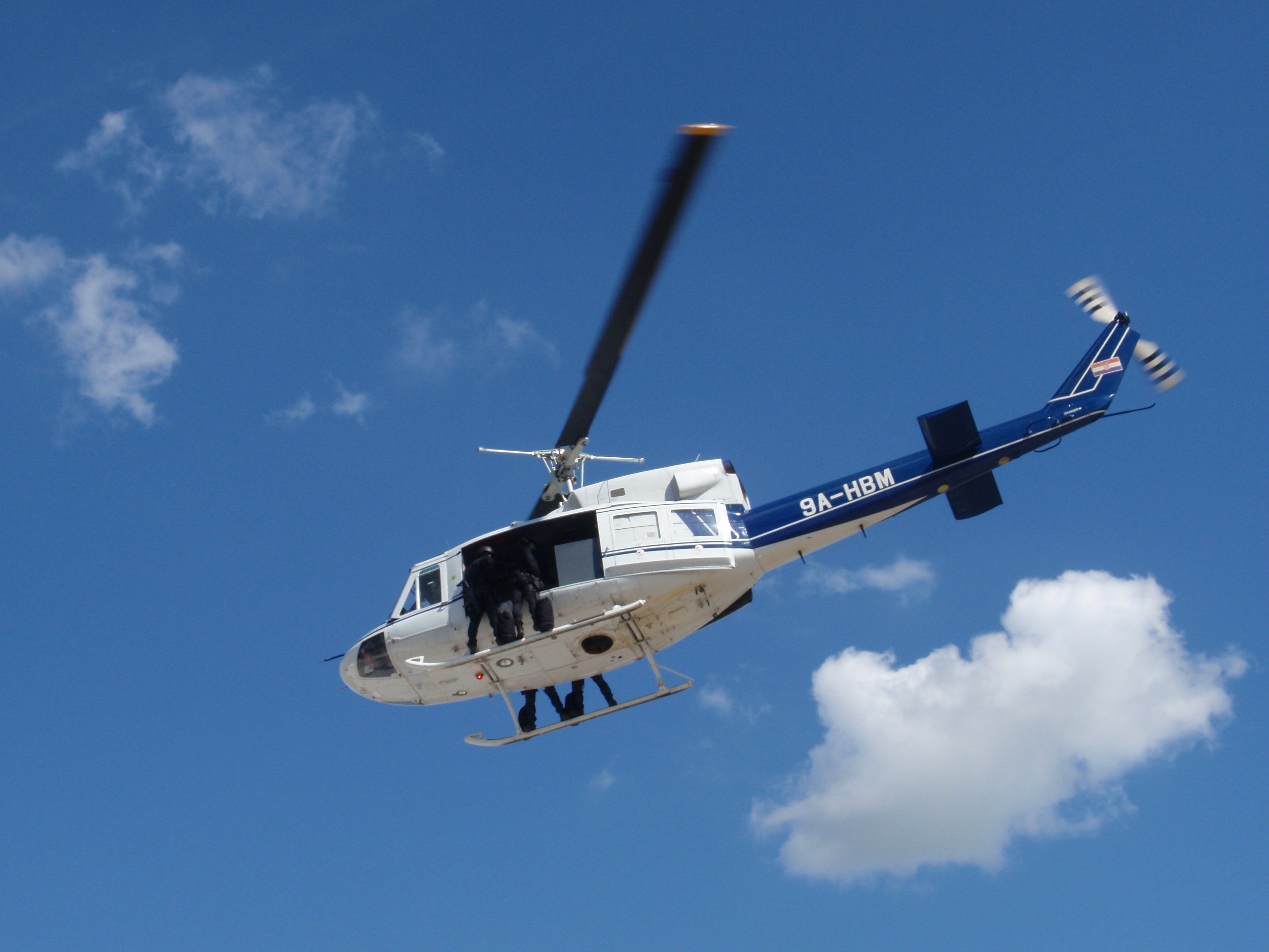 Croatian police Bell 212 with ATJ Lučko members at Lučko Air Show 2010